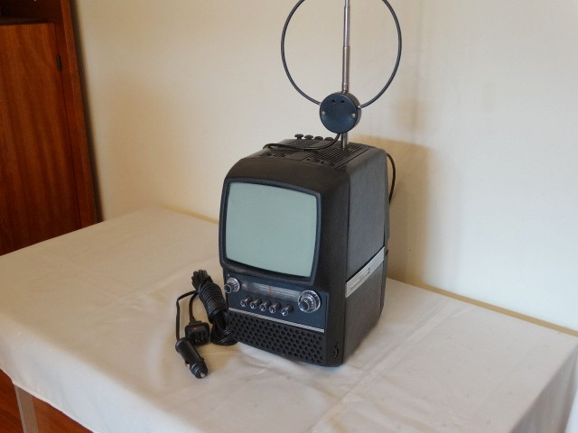 B/w TV set Šilelis 403D, screen 16 cm, made in Lithuania. Collection of Zenonas Langaitis